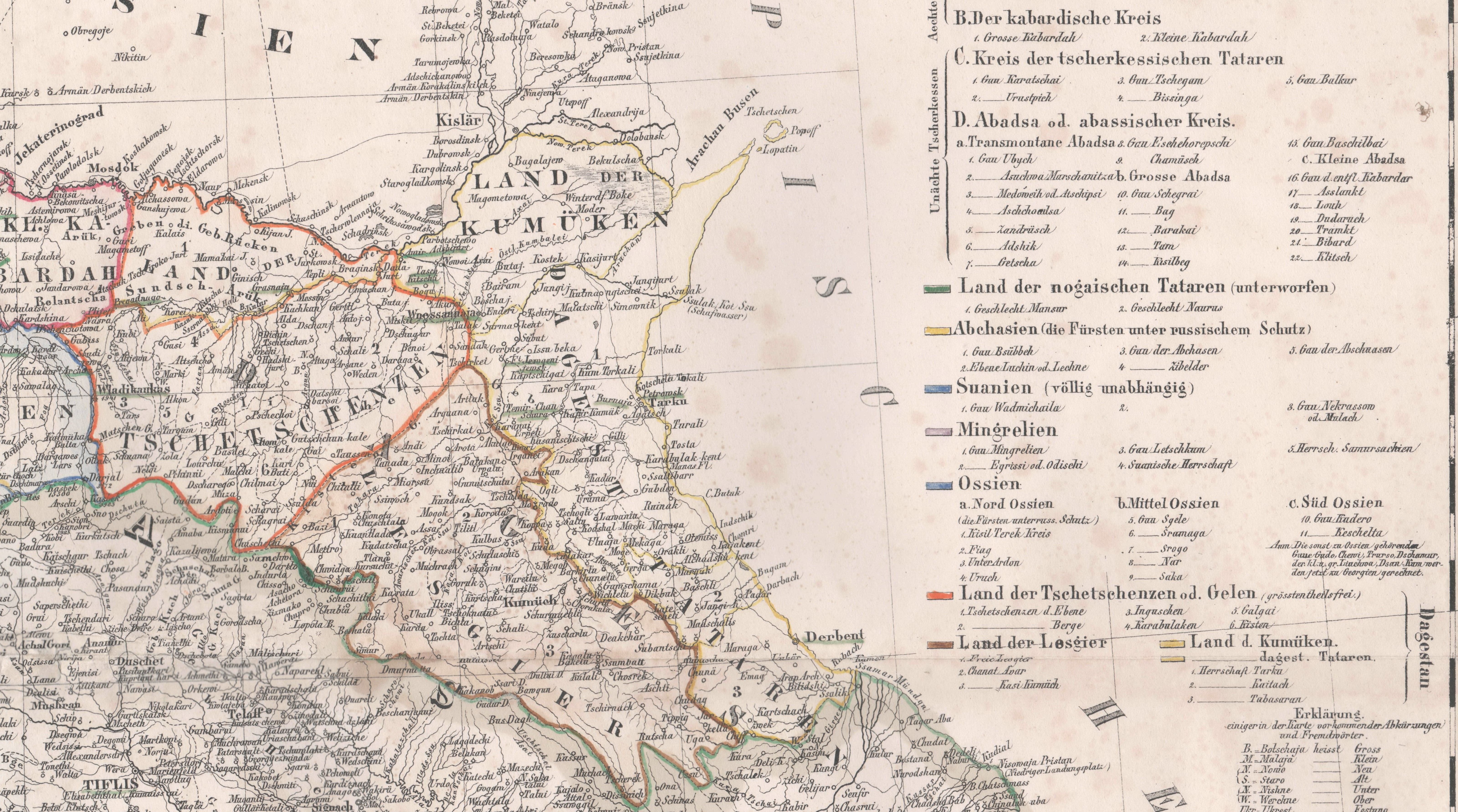 Fragment of a Caucasus map (Kumyk lands) by F. Handke; lithographed, printed and published by C. Flemming in Glogau, 1855; complete map with different colouring at File:1855 Karte vom Kaukasus - F. Handke.jpg